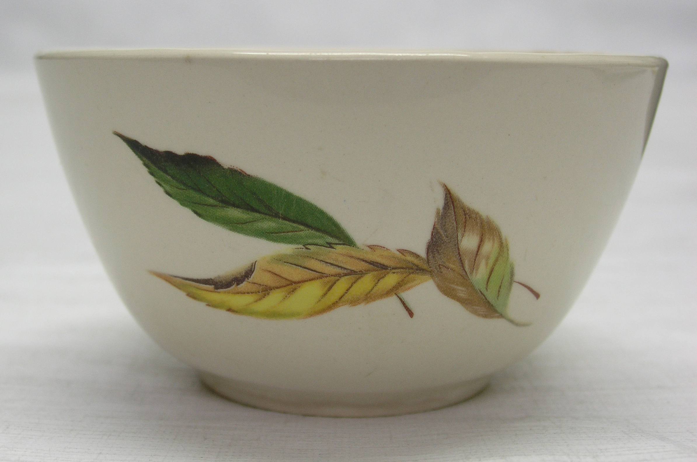 Sugar bowl, cream vitrified ceramic with Golden Fall (three leaves one green, one yellow-brown and brown-green) design transfer on outside.